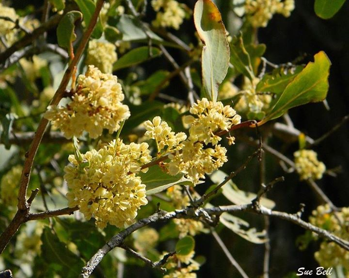 Gymnosporia senegalensis (Lam.) Loes. - flowers - Harare Botanical Garden, Zimbabwe